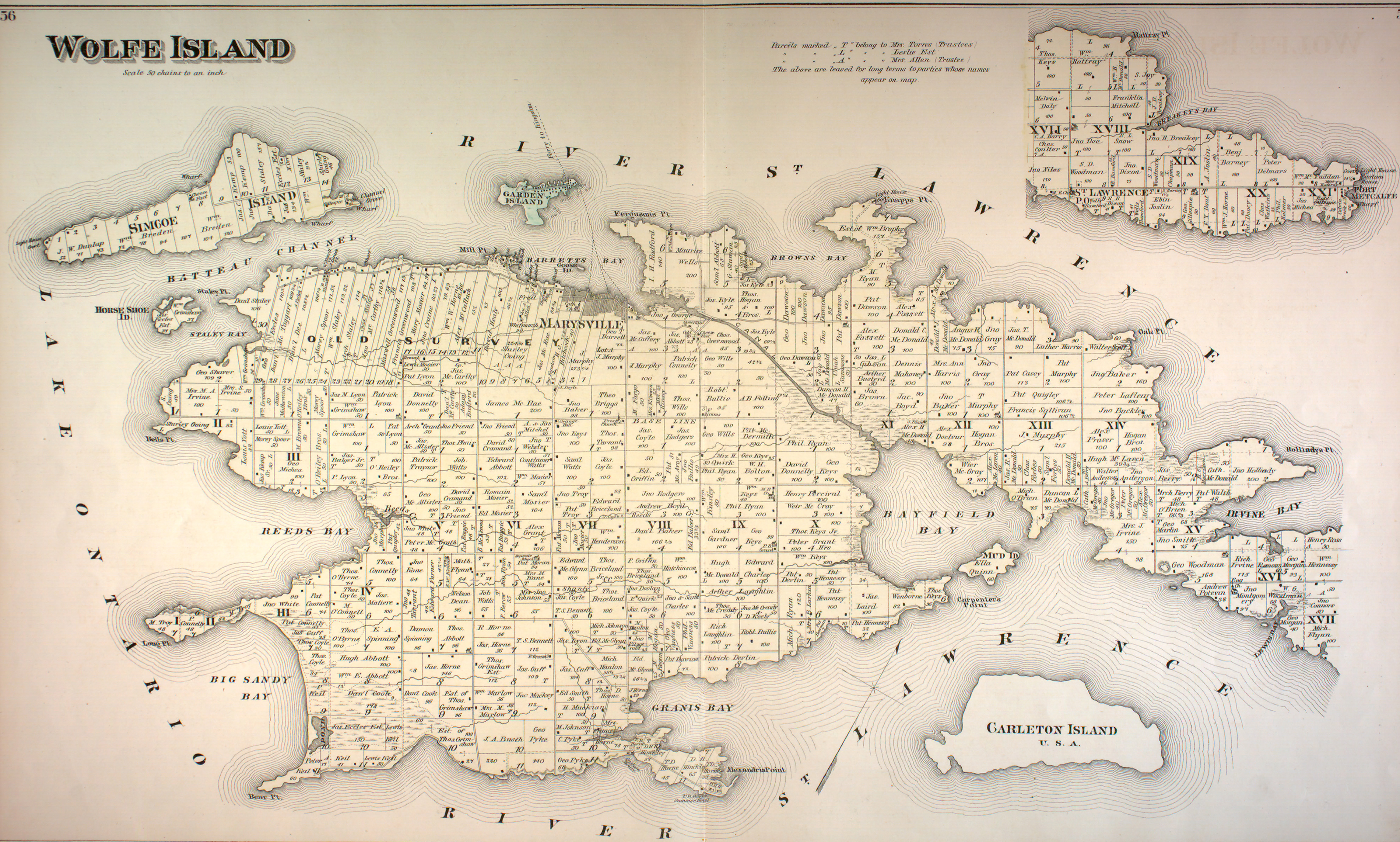 1878 map of Wolfe Island, Ontario, Canada, from "Frontenac, Lennox and Addington Counties." Illustrated historical atlas of the counties of Frontenac, Lennox and Addington, Ontario. Toronto : J.H. Meacham & Co., 1878.